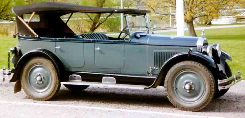 Nash Advanced Six Touring 1927